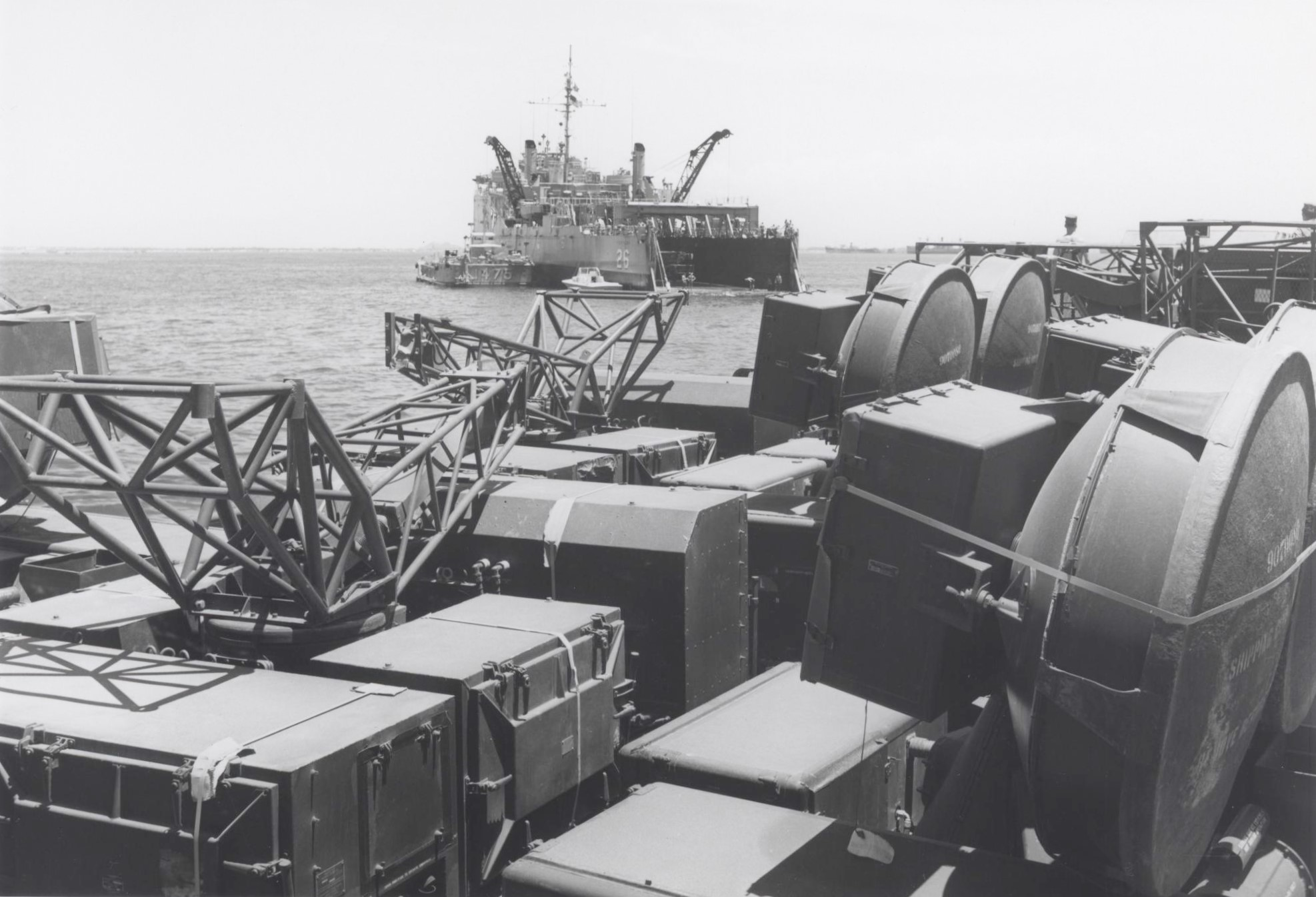 Operation Keystone Eagle, equipment of the 1st Light Antiaircraft Missile Battalion on board a ship in Da Nang Harbour